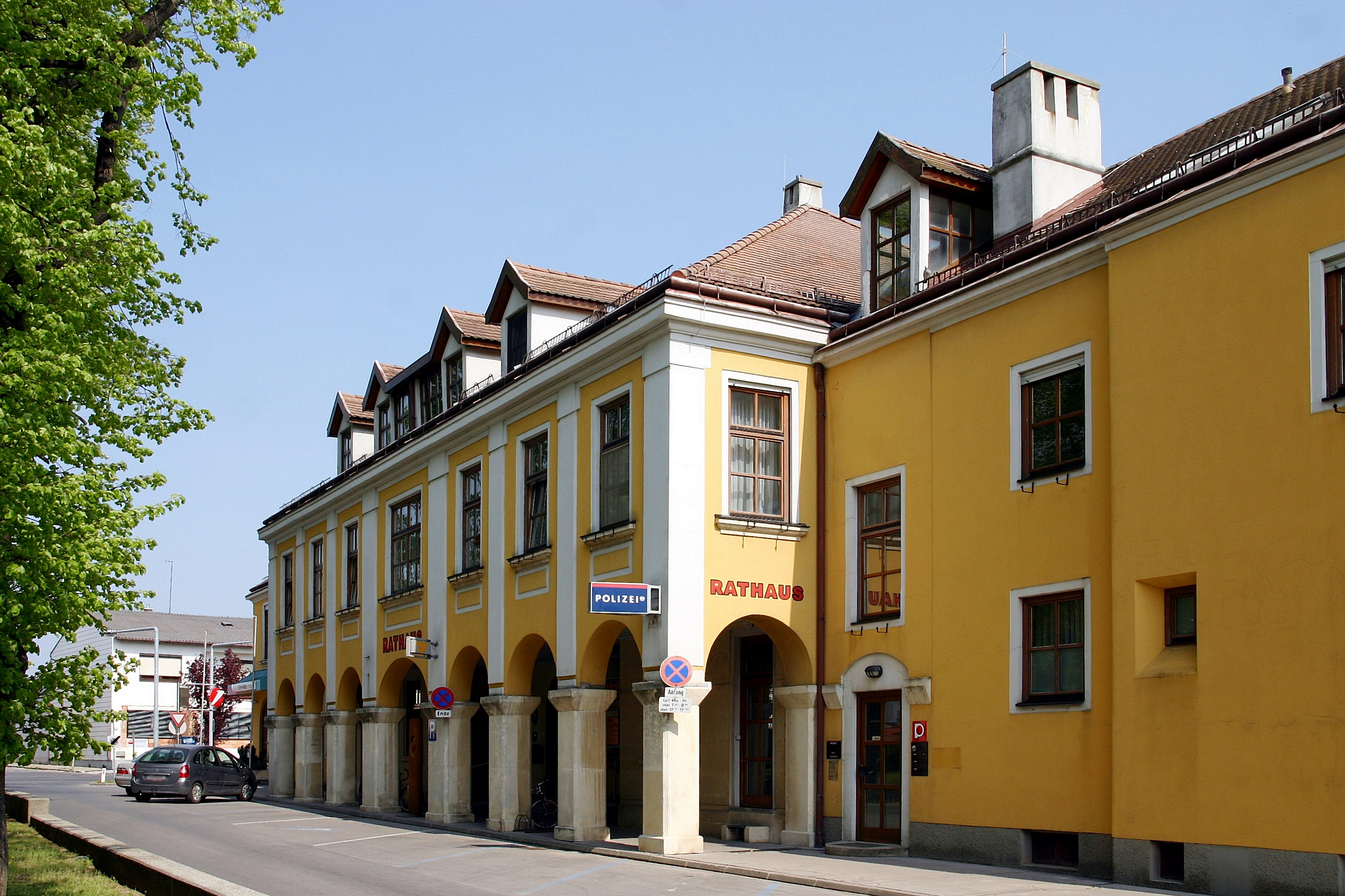 Gols - Municipal office